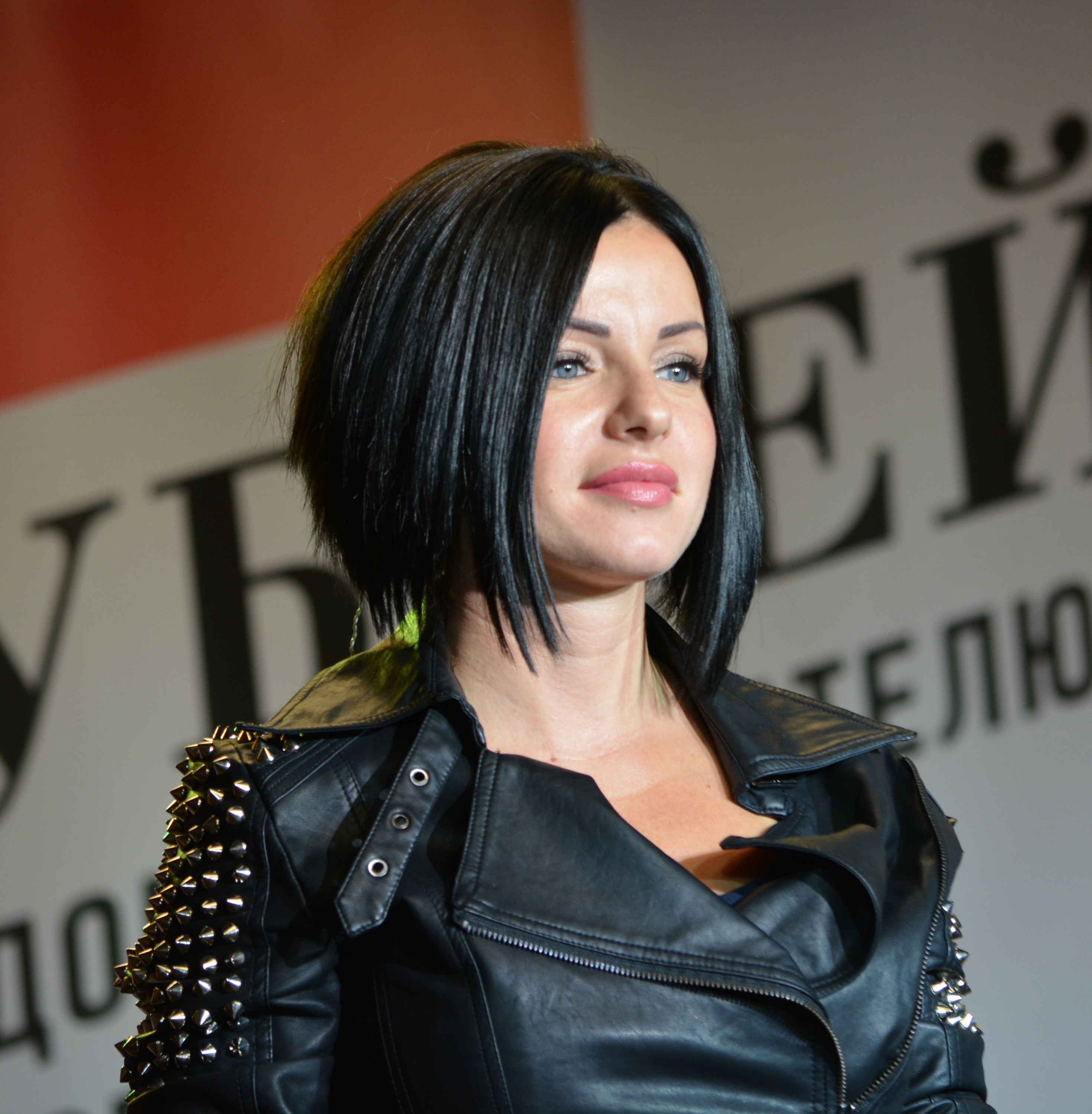 Julia Volkova at TEC Continent (St-Petersburg), 20.09.2014